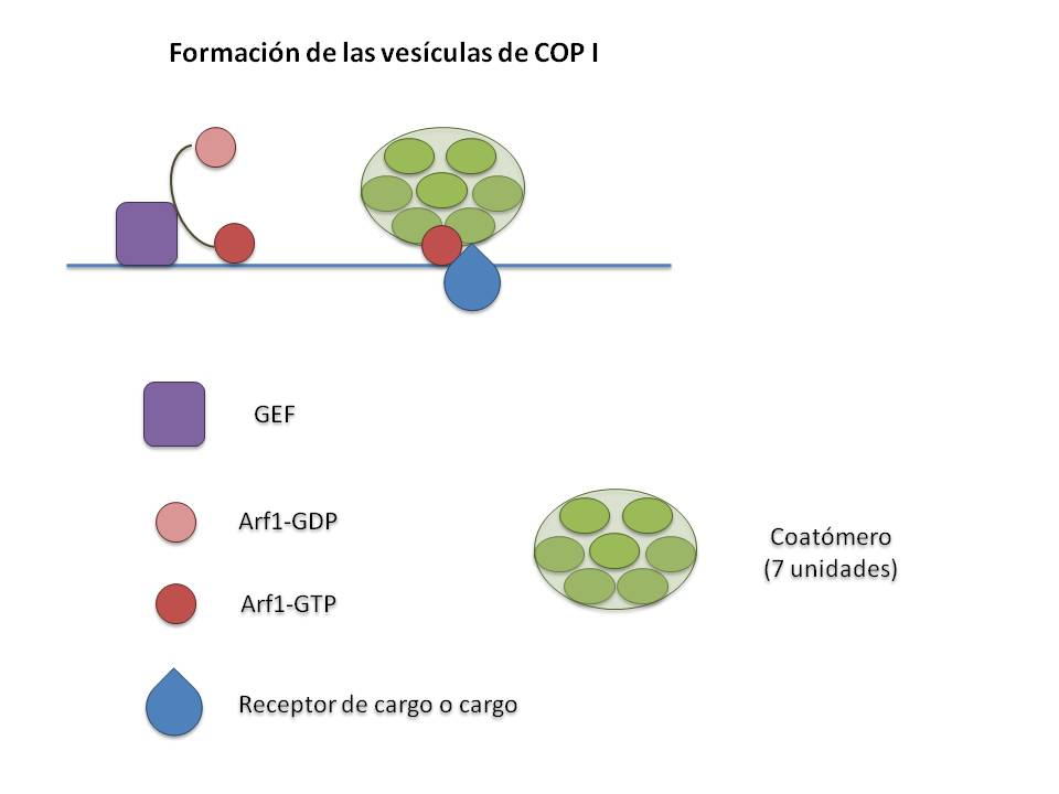 Formación de las vesículas de COPI